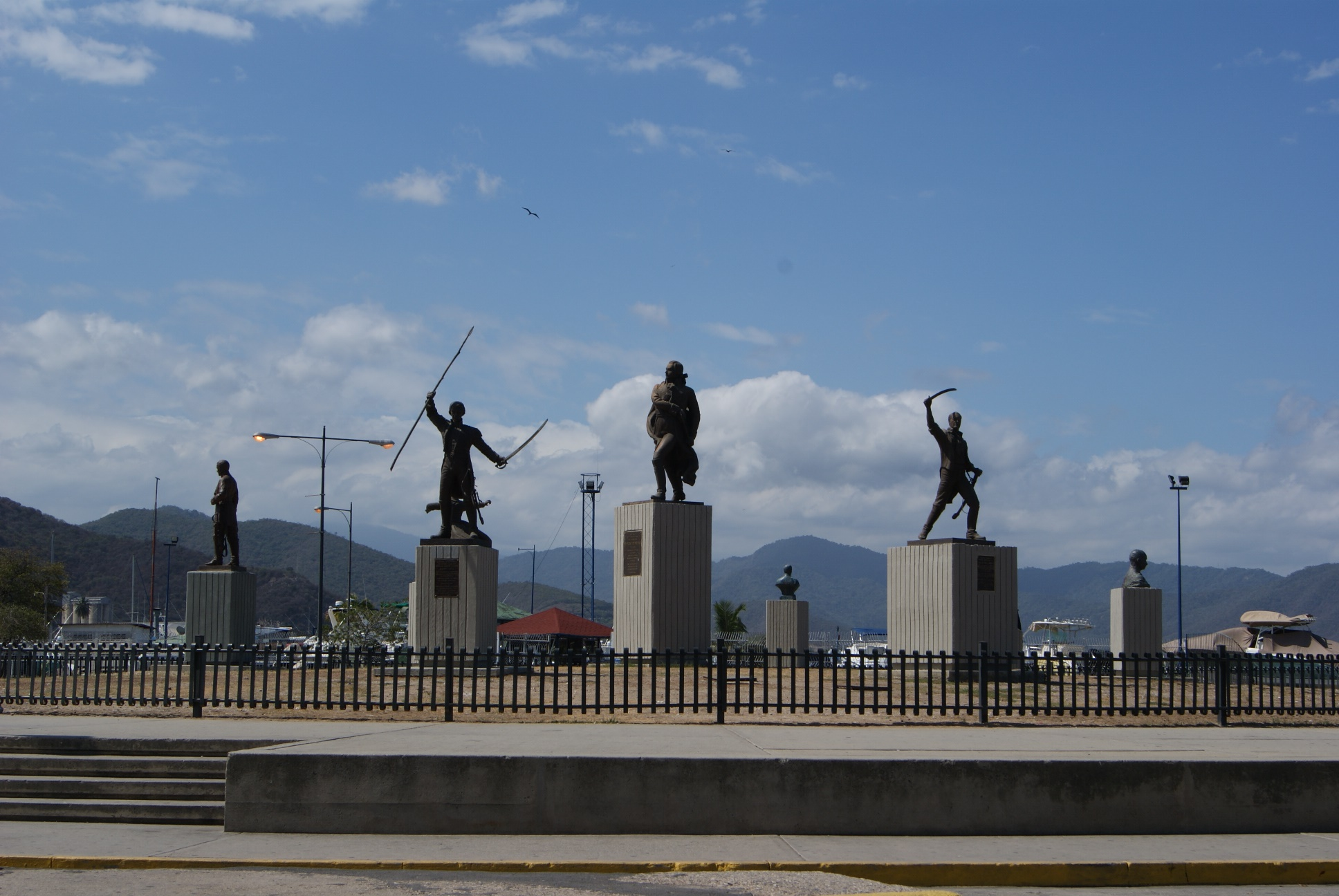 Puerto Cabello, Venezuela